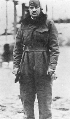 W. Spencer